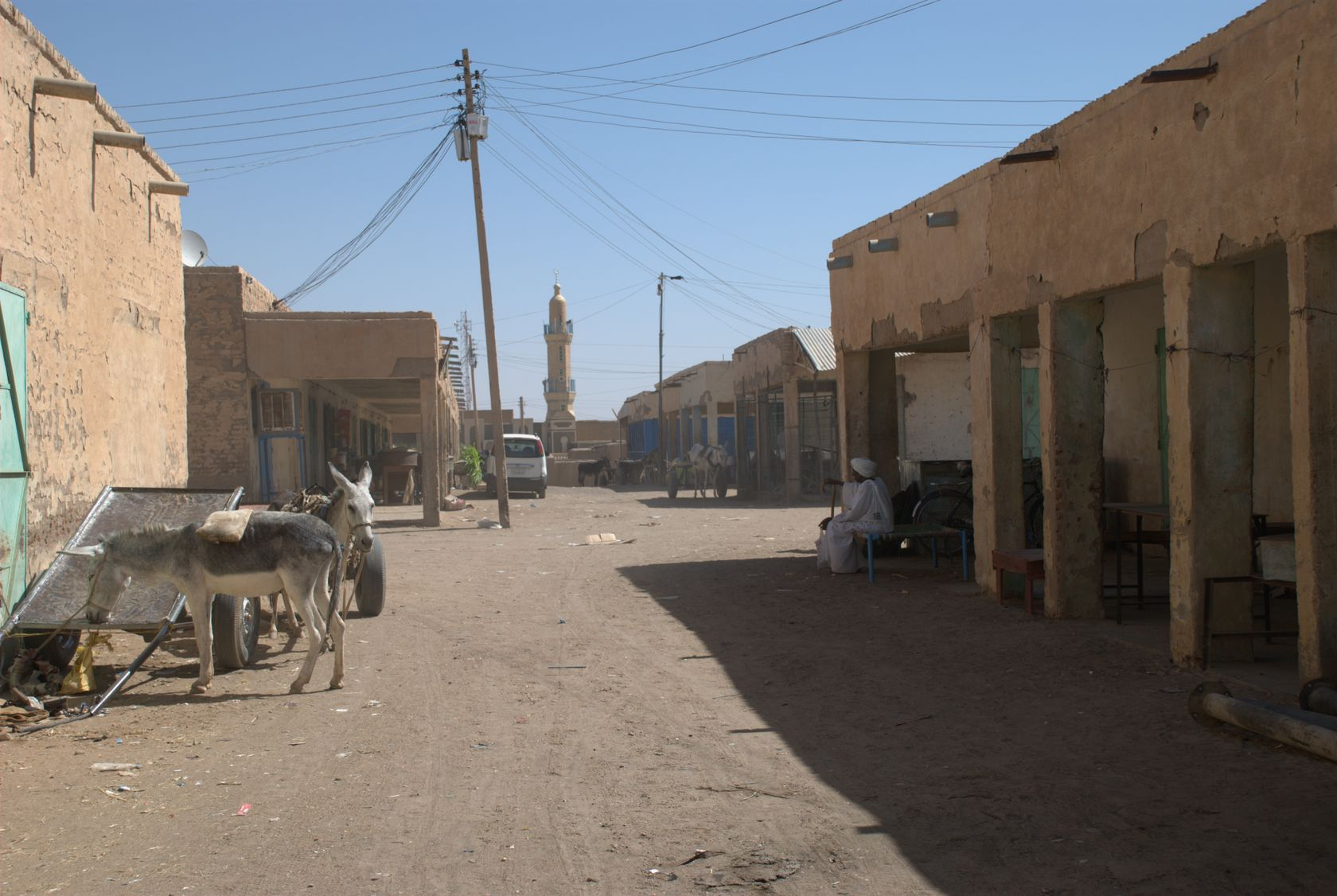 Center of Ad-Damir, Sudan